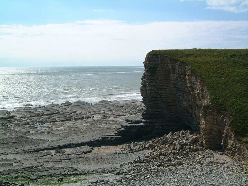 Nash Point in 2006. Source:my photograph